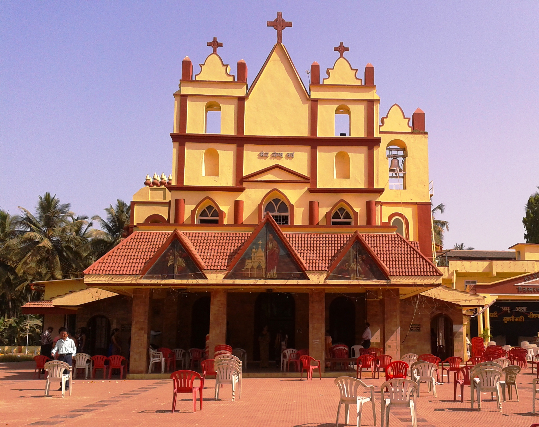 Facade of the St. James Church in Agashi town near Mumbai. Taken on Easter Sunday 2011.